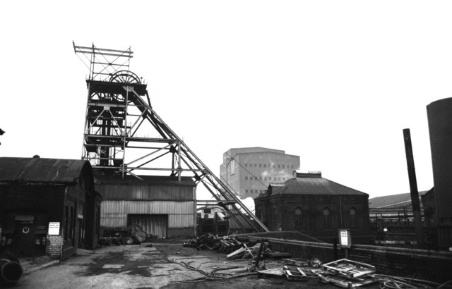 Orgreave Colliery The winding house contained a very fast little steam winder. I can no longer remember whether I drove it but the late George Cooper did. His pictures of this site are in the excellent book of Royal Commission on Historic Monuments photographs of Yorkshire Collieries.